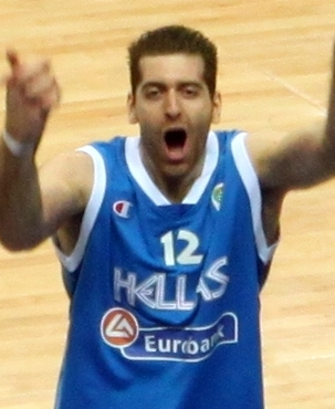 The Greek National Team of Basketball... Greece edged Turkey in a EuroBasket Quarter-Final thriller. [Turkey 74-76 Greece, Eyrobasket 2009, Poland] Turkey 76-74 Greece